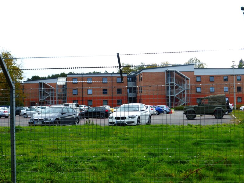 Barracks on Minley Road seen from the bridleway at the back